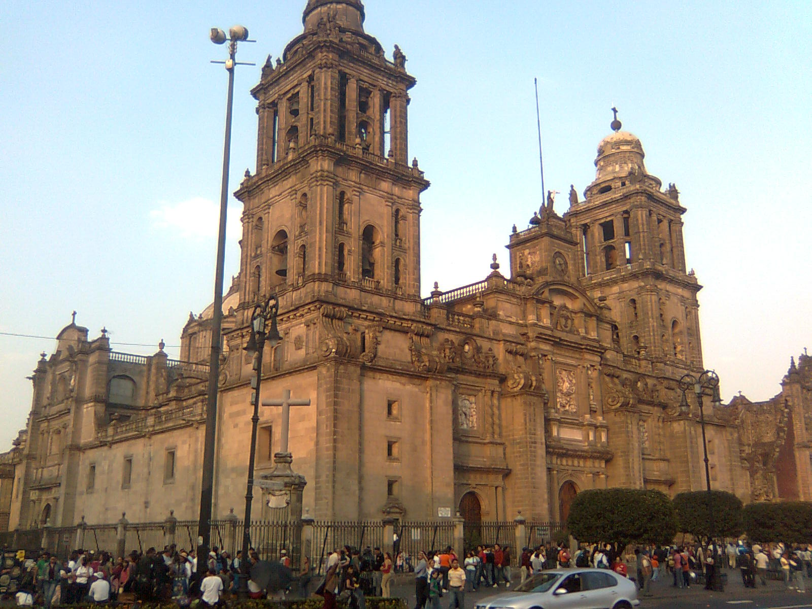 Catedral Metropolitana de la Ciudad de México en el Centro Histórico de la Ciudad de México, en México.